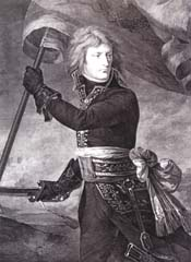 "Bonaparte on the Arcole Bridge on 17 November 1796," propaganda print attributed to Giuseppe Longhi, circa 1801, of original painting by Baron Antoine-Jean Gros (1771-1835)